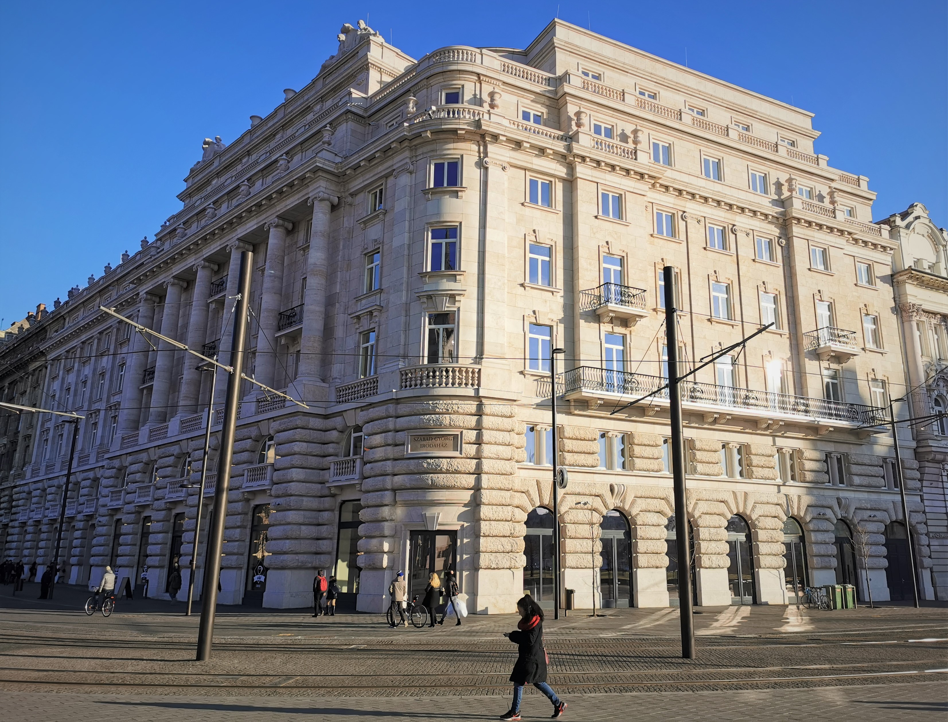 Szabad György Irodaház